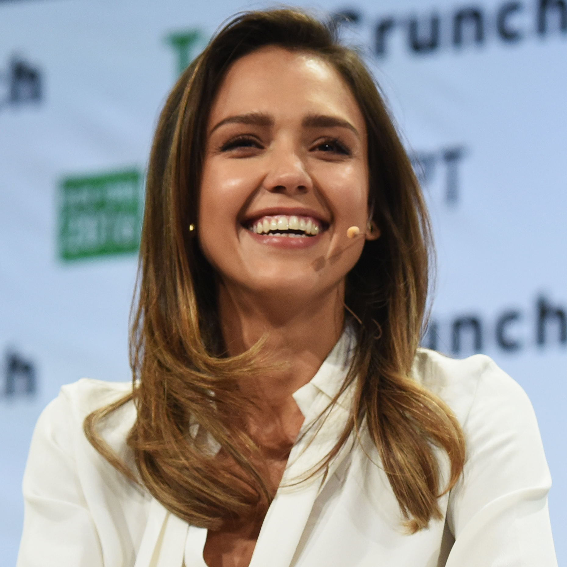 NEW YORK, NY - MAY 11: Founder and COO of The Honest Company Jessica Alba speaks onstage during TechCrunch Disrupt NY 2016 at Brooklyn Cruise Terminal on May 11, 2016 in New York City. (Photo by Noam Galai/Getty Images for TechCrunch)